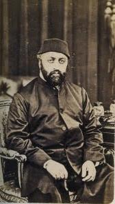 Abdül Aziz I